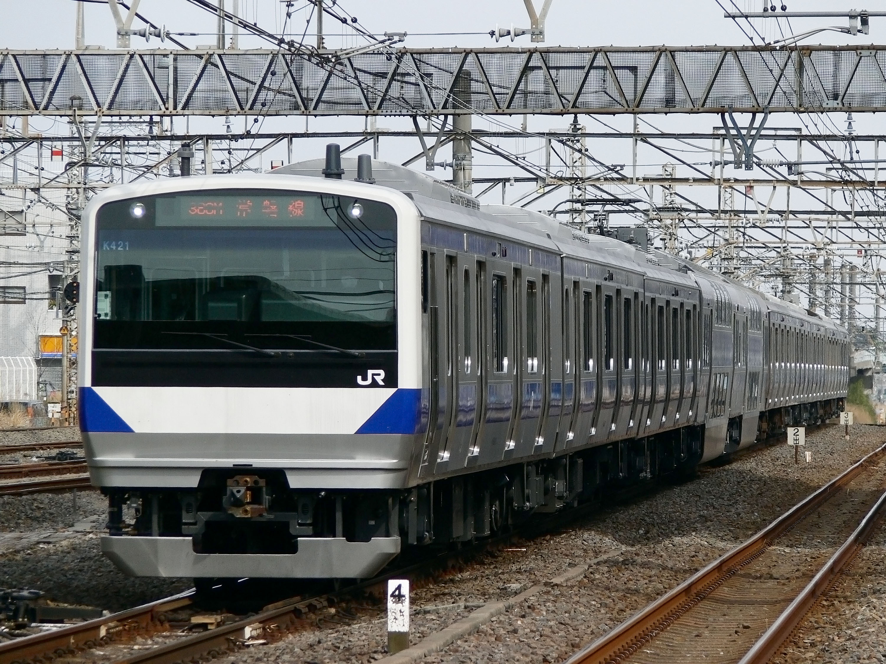 JR East E531 series set K421 with a pair of bilevel "Green cars" approaching Abiko Station on the Joban Line in Chiba Prefecture, Japan